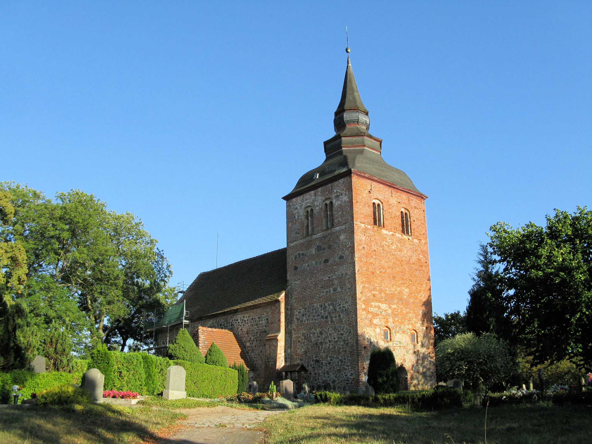 Church in Schloen, disctrict Müritz, Mecklenburg-Vorpommern, Germany